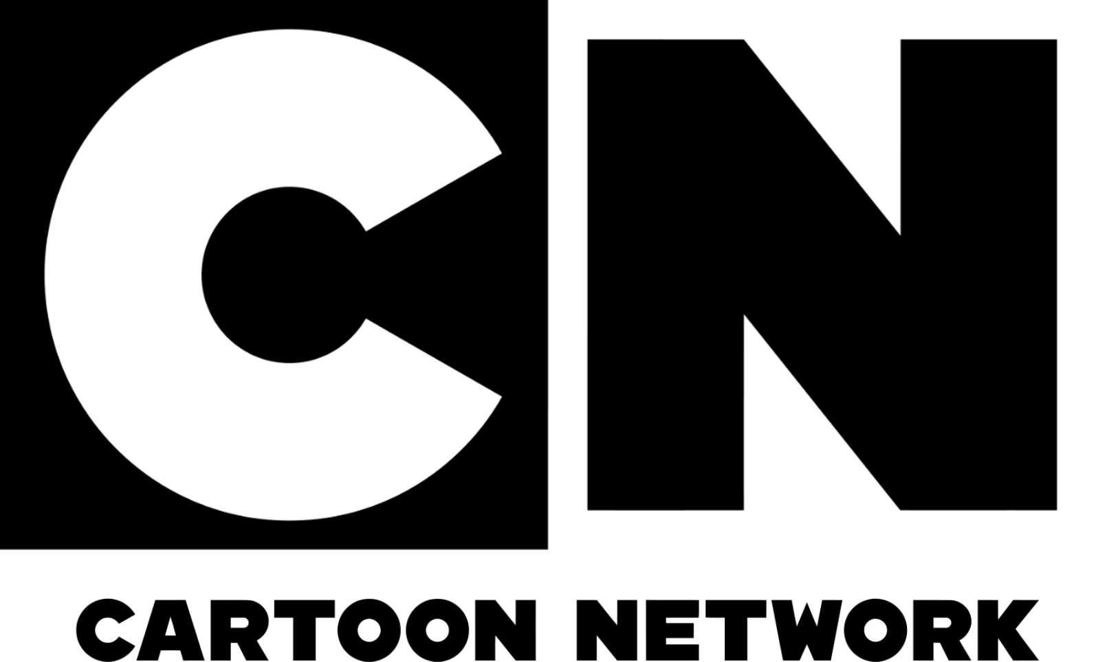 This is the modified version of the 2010 logo.